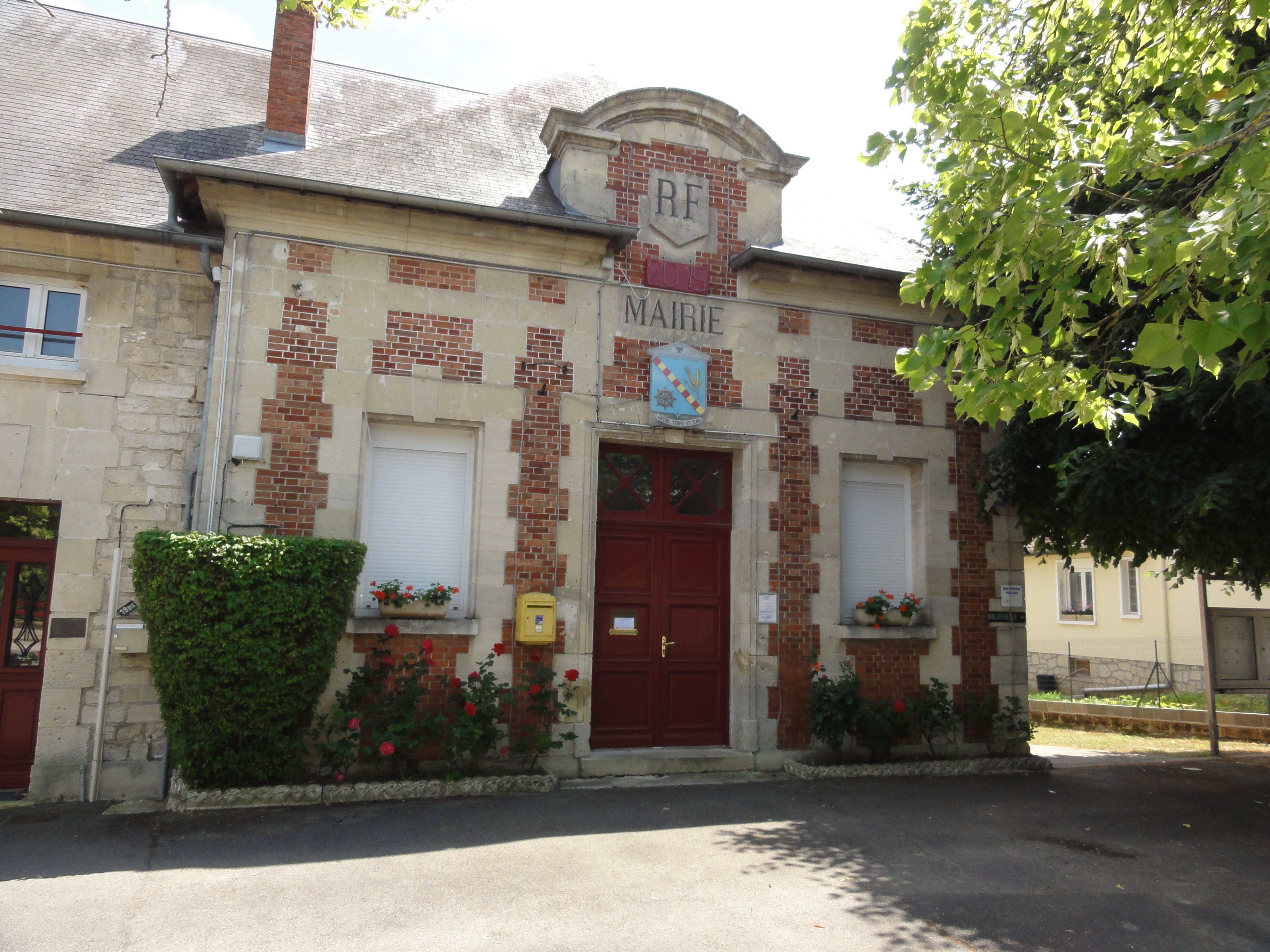 Pargny-Filain (Aisne) mairie